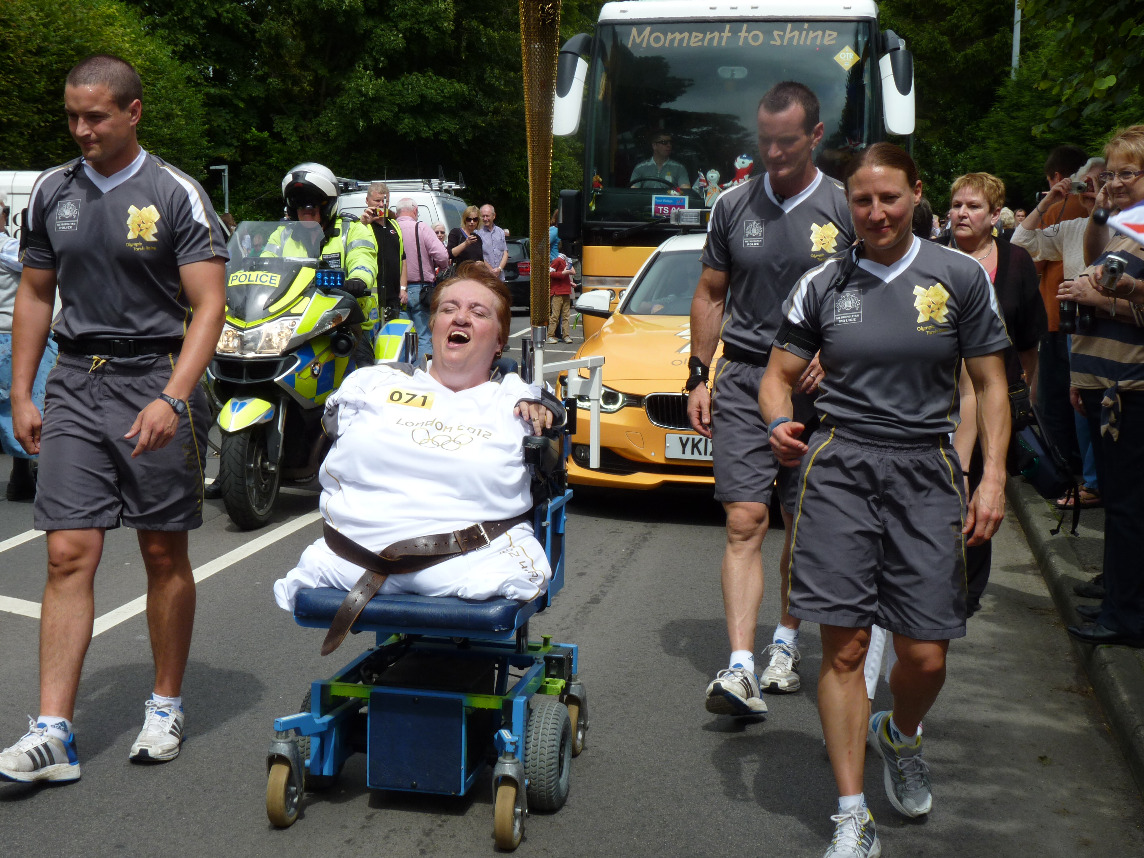 2012 Torch Bearer